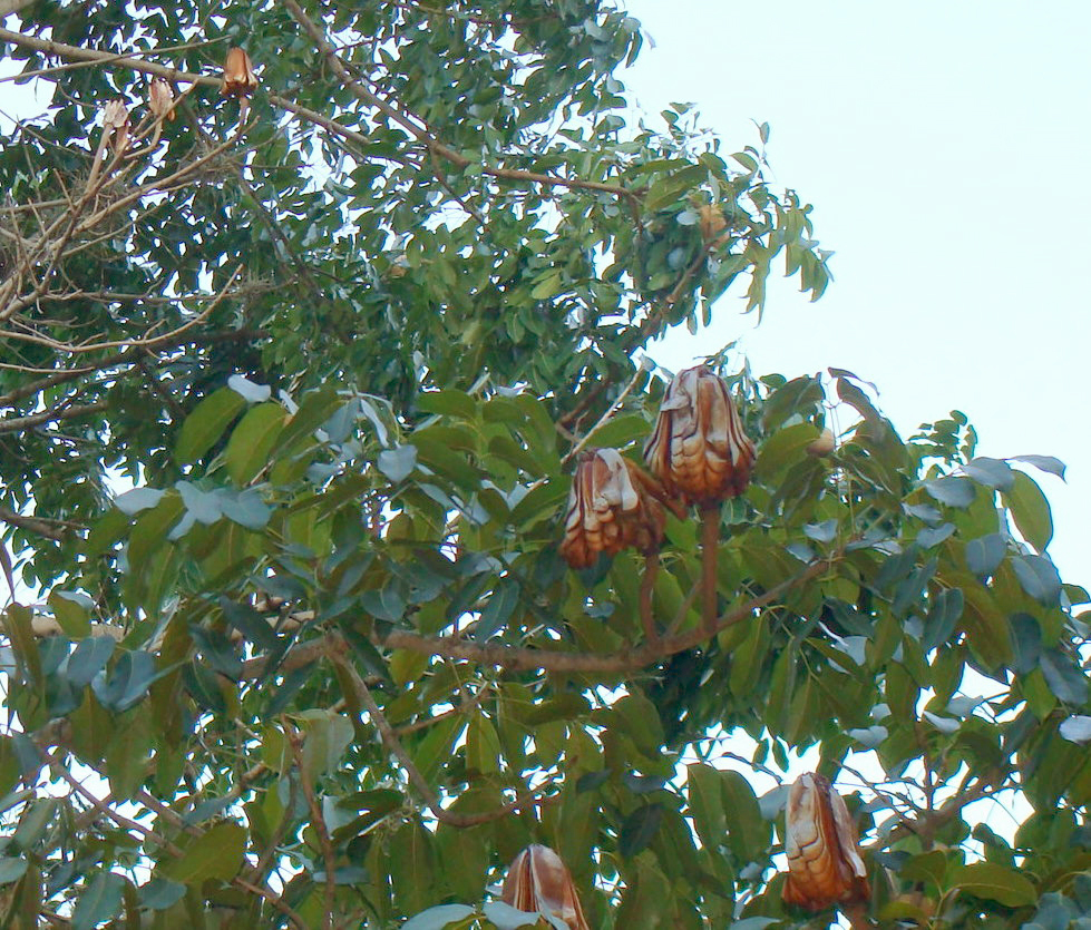 Mahogany fruits showing their seeds ready to be scattered by wind